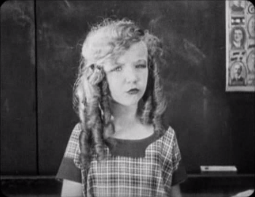 Virginia Davis in a scene from Alice Gets in Dutch (1924). Disney films before September 6, 1926 have no copyright notice, as stated here.